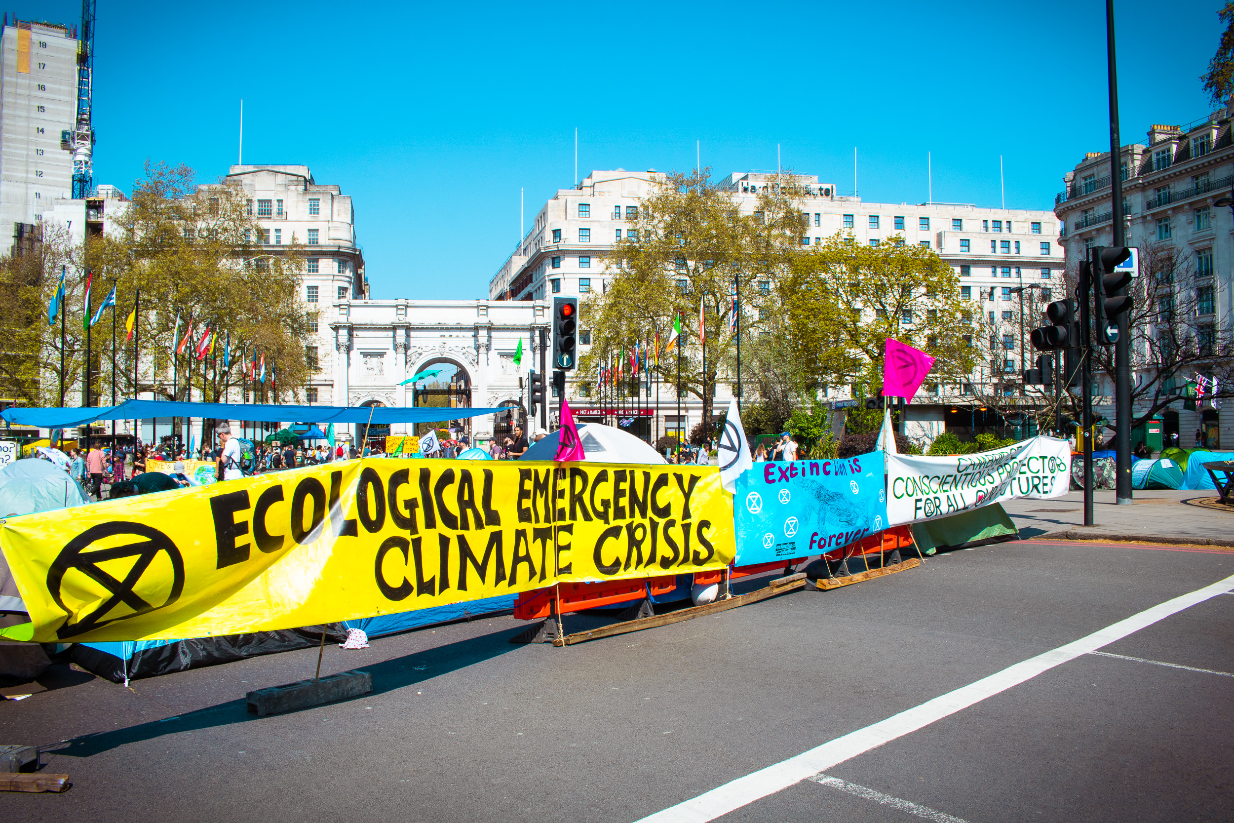 Saturda April 20th 2019, central London